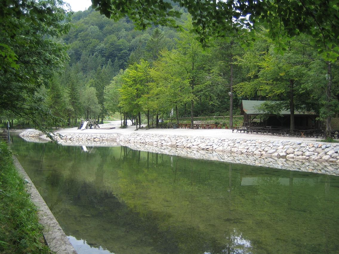 Idrijca river, Slovenija (runs through mining town Idrija) photo:Ziga 06:57, 12 August 2006 (UTC)